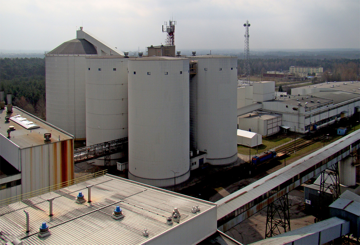 Sugar plant in Glinojeck, Poland